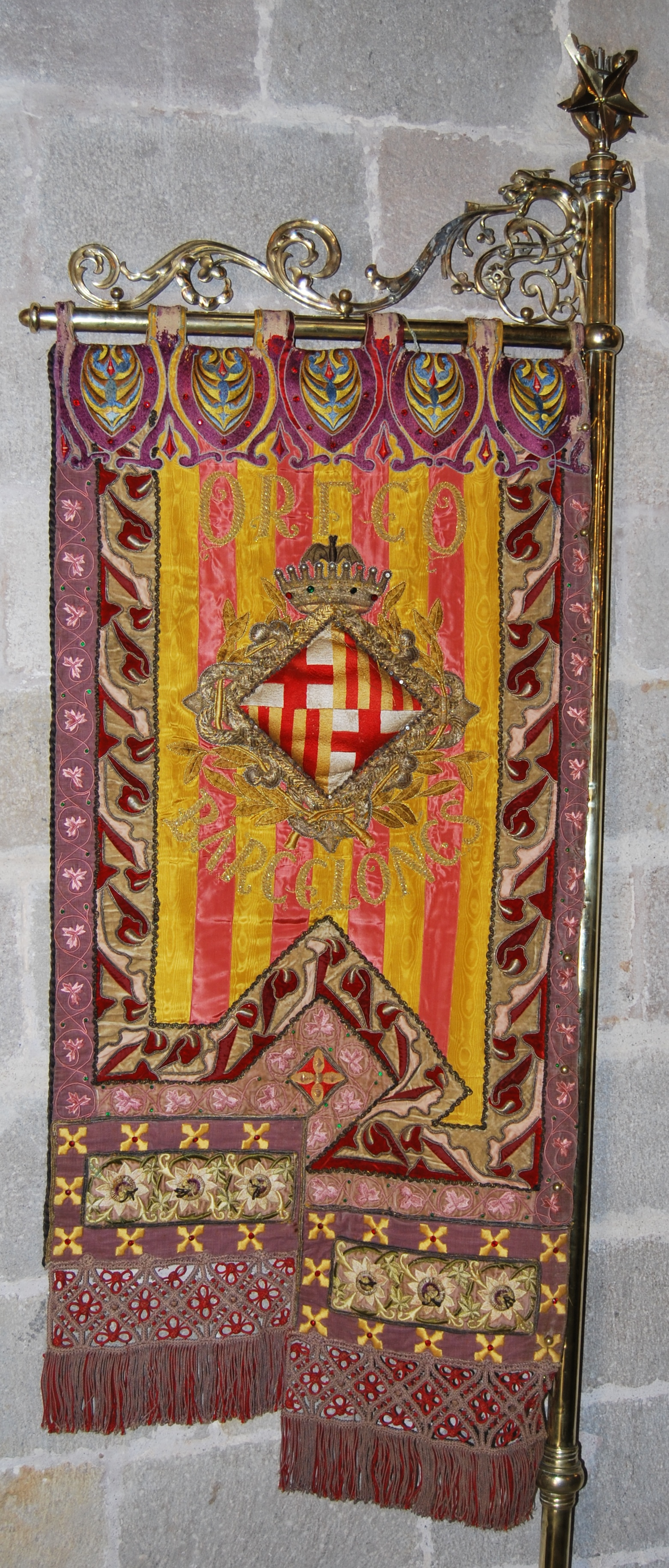 The "Orfeó Barcelonés" banner. Designed by Bonaventura Llauradó. Crafted in 1902-1904. Barcelona City History Museum MUHBA